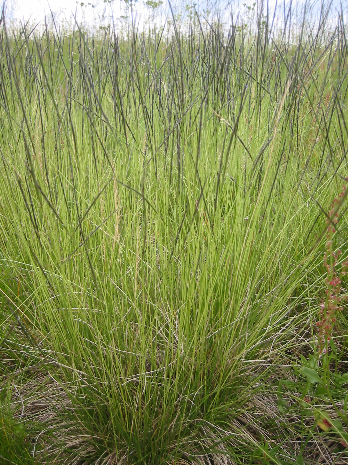 Nardus stricta on a mountain medow